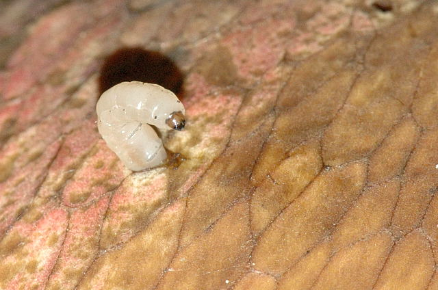 Picture taken in Commanster, Belgian High Ardennes . Species: Sciara hemerobioides larva